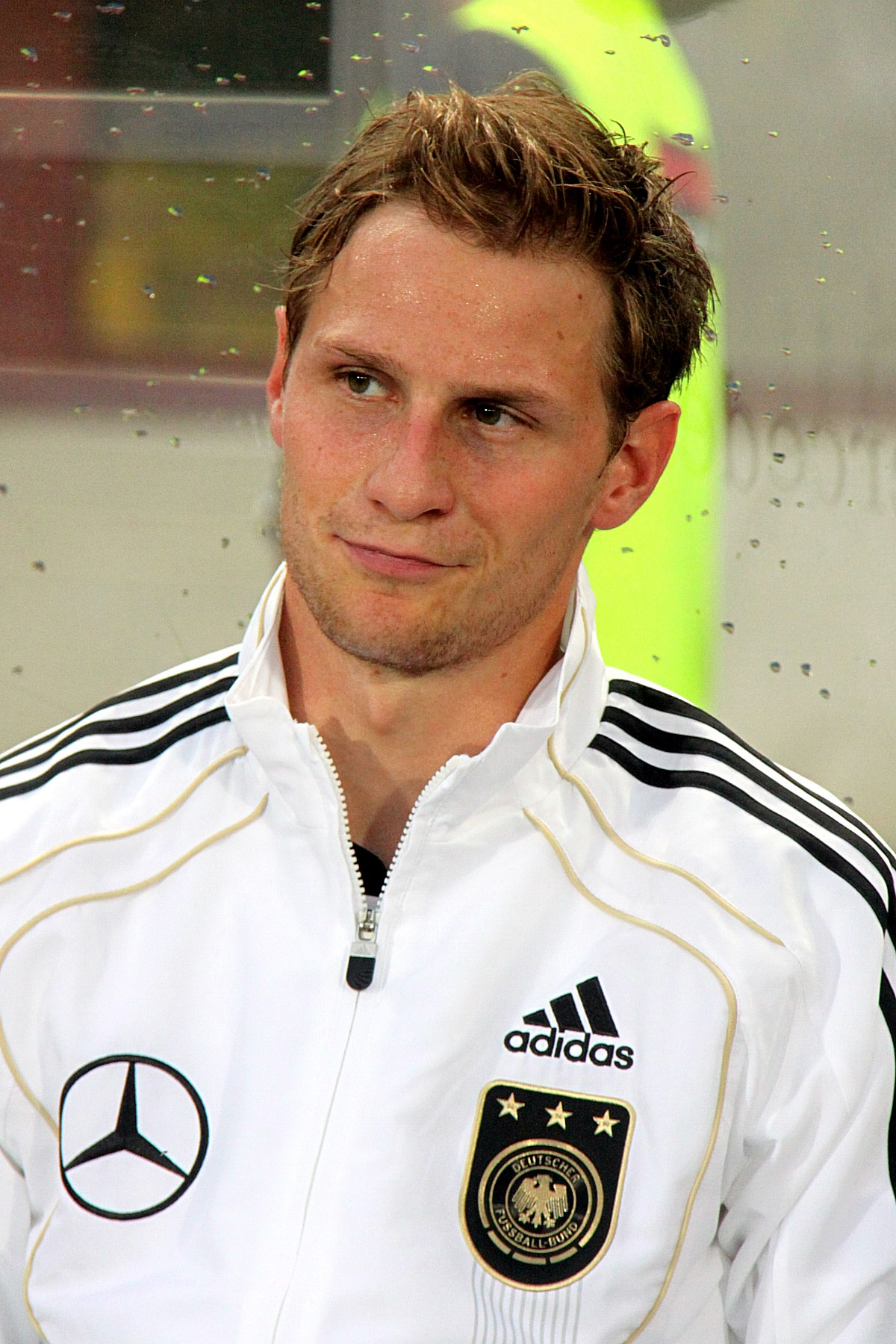 Benedikt Höwedes (FC Schalke 04), german national football team